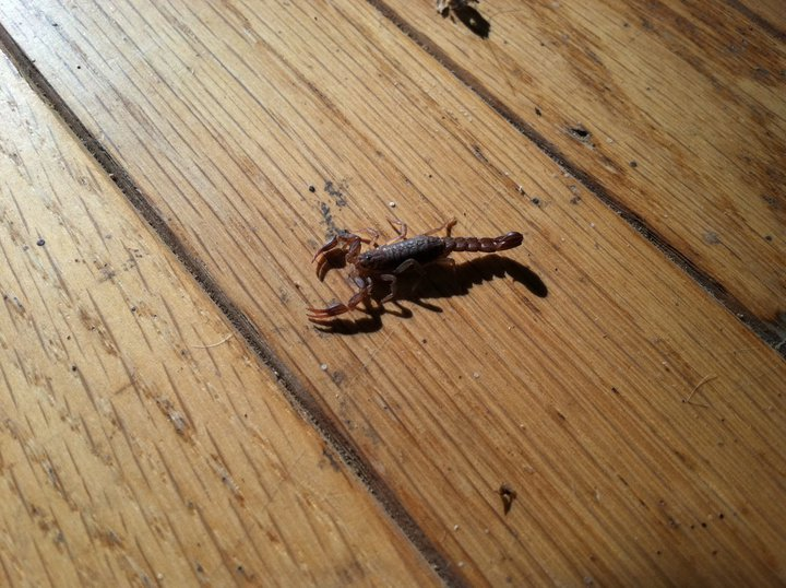 Vaejovis carolinianus found in Tennessee on July 10, 2012